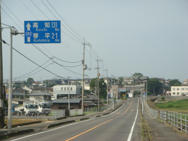 The Kagawa Prefectural Road Route 282 on the border between Takamatsu City and Ayagawa Town